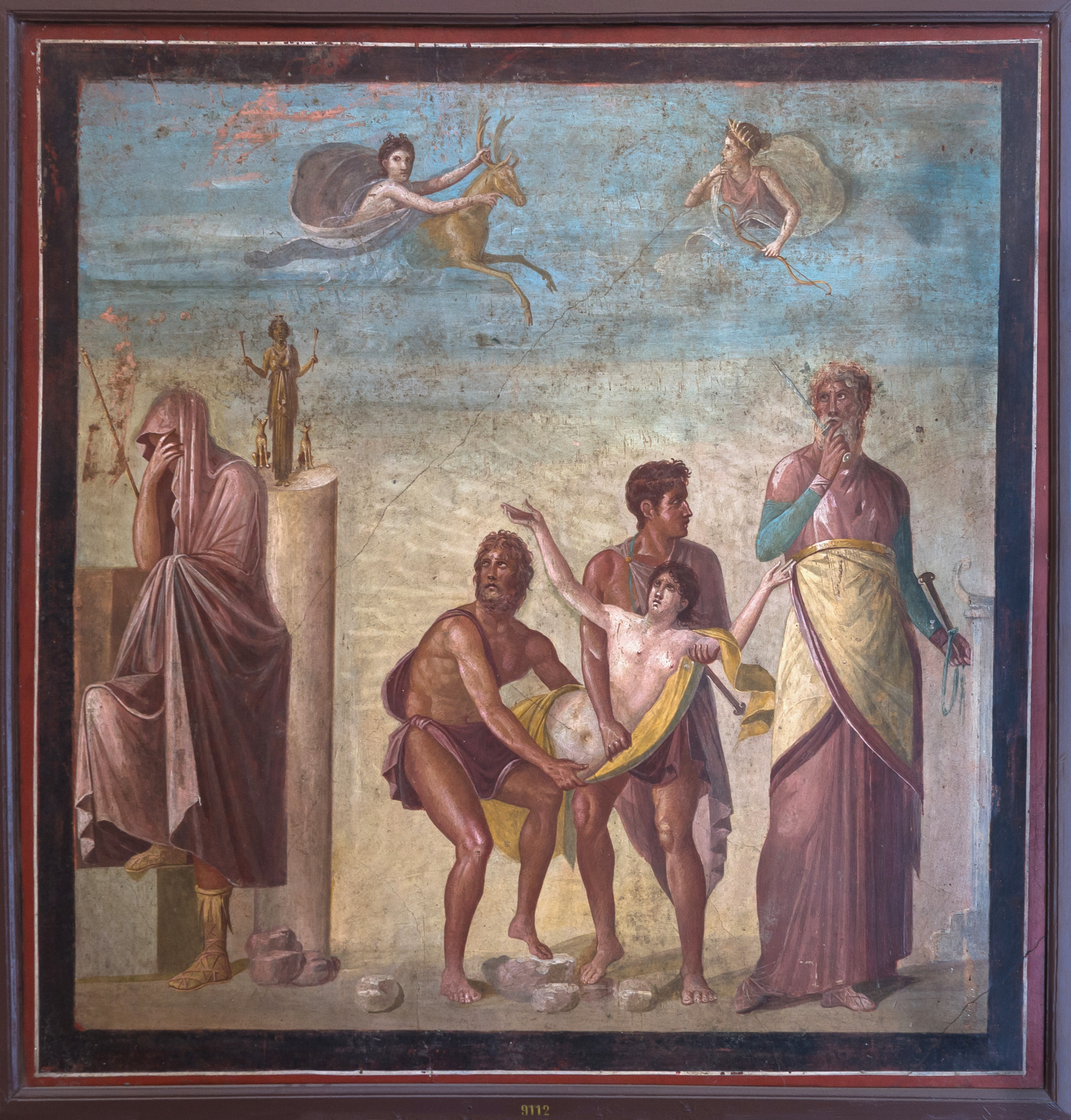 Iphigeneia carried to the sacrifice (centre) while the seer Calchas (on the right) watches on and Agamemnon (on the left) covers his head in sign of deploration. In the sky, Artemis appears with a hind which will be substituted to the young girl.